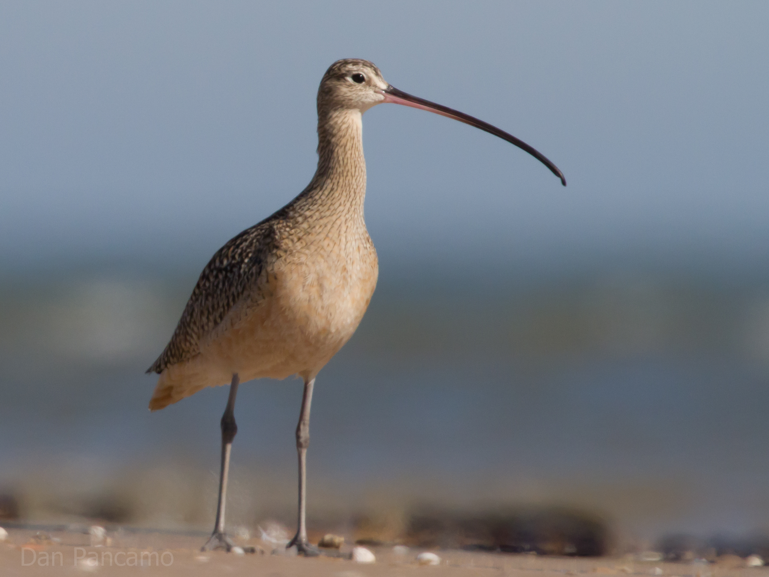 Long-billed Curlew